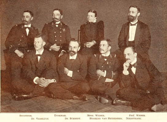 Leden der Siboga-expeditie